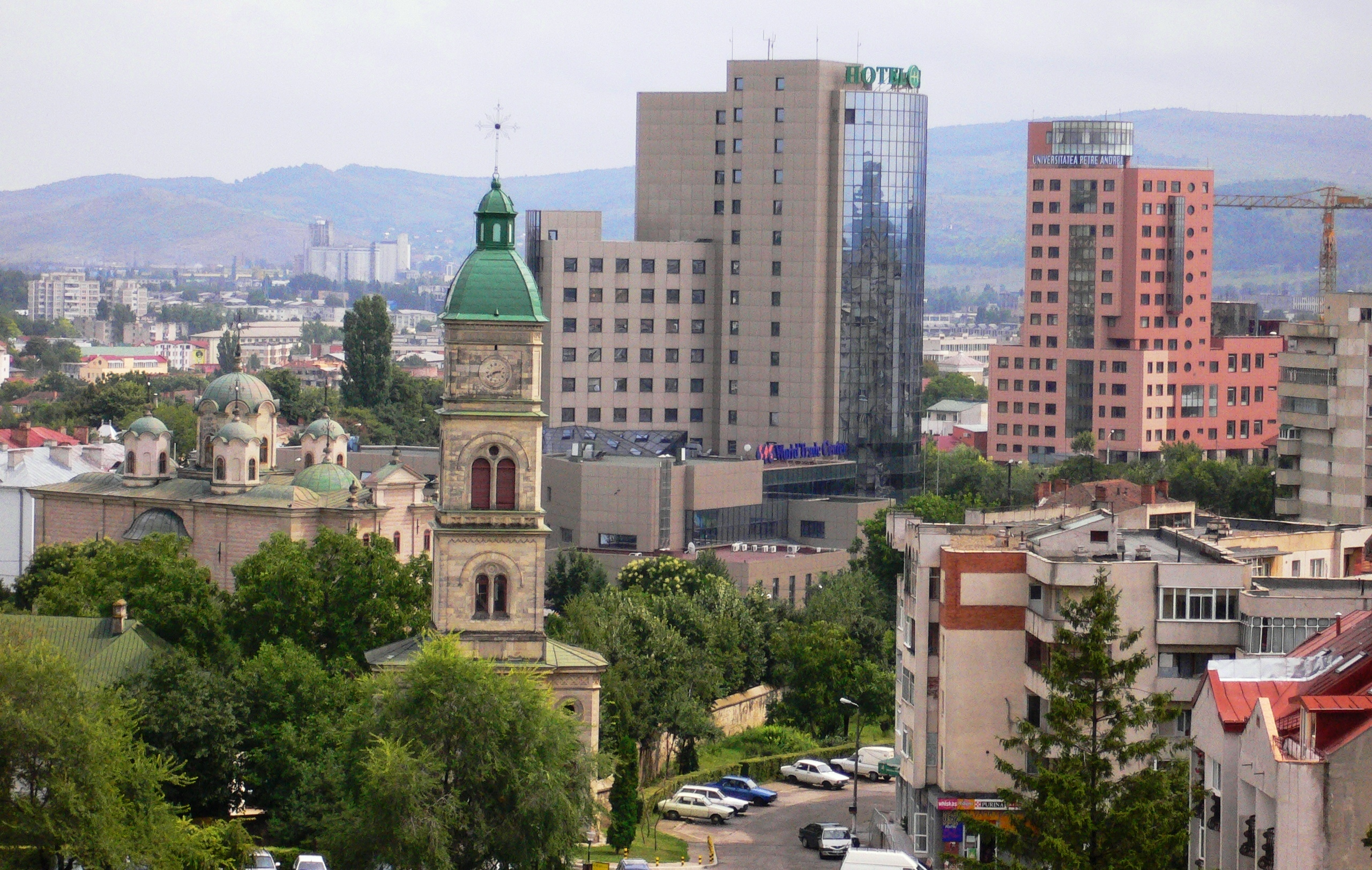 Barboi Church as viewed from Golia Tower, Iași, Romania